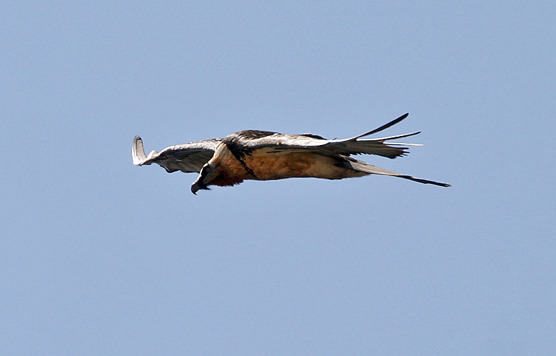 Lammergeier Gypaetus barbatus in Kullu District of Himachal Pradesh, India. Finally after many years I had my destiny with this Beautiful & Mysterious birds of the Himalayas. Not because I saw it for the first time but because I got a pics. I always wanted. It is difficult to capture it as it hardly gives you any time. One round & it is nowhere to be seen unlike the majestic Himalayan Griffon. Moustaches, which can be seen here, are its special attraction. As also its stated habit of dropping bones from a height on the rocks to break them, for its favourite delicious 'bone-marrow' inside the bones. It has been seen even at the height of 7500 mtr. during Everest Expeditions. Taken on 9/5/07 on way to Tilla Lotani (12,500 ft.) from Zirmi Thaatch (11000 ft.) on trek to Sar Pass in Himachal.